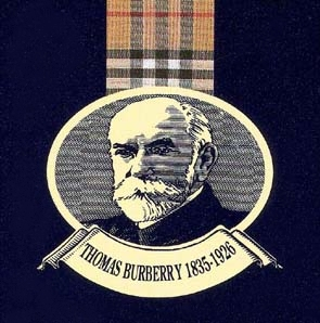 Thomas Burberry